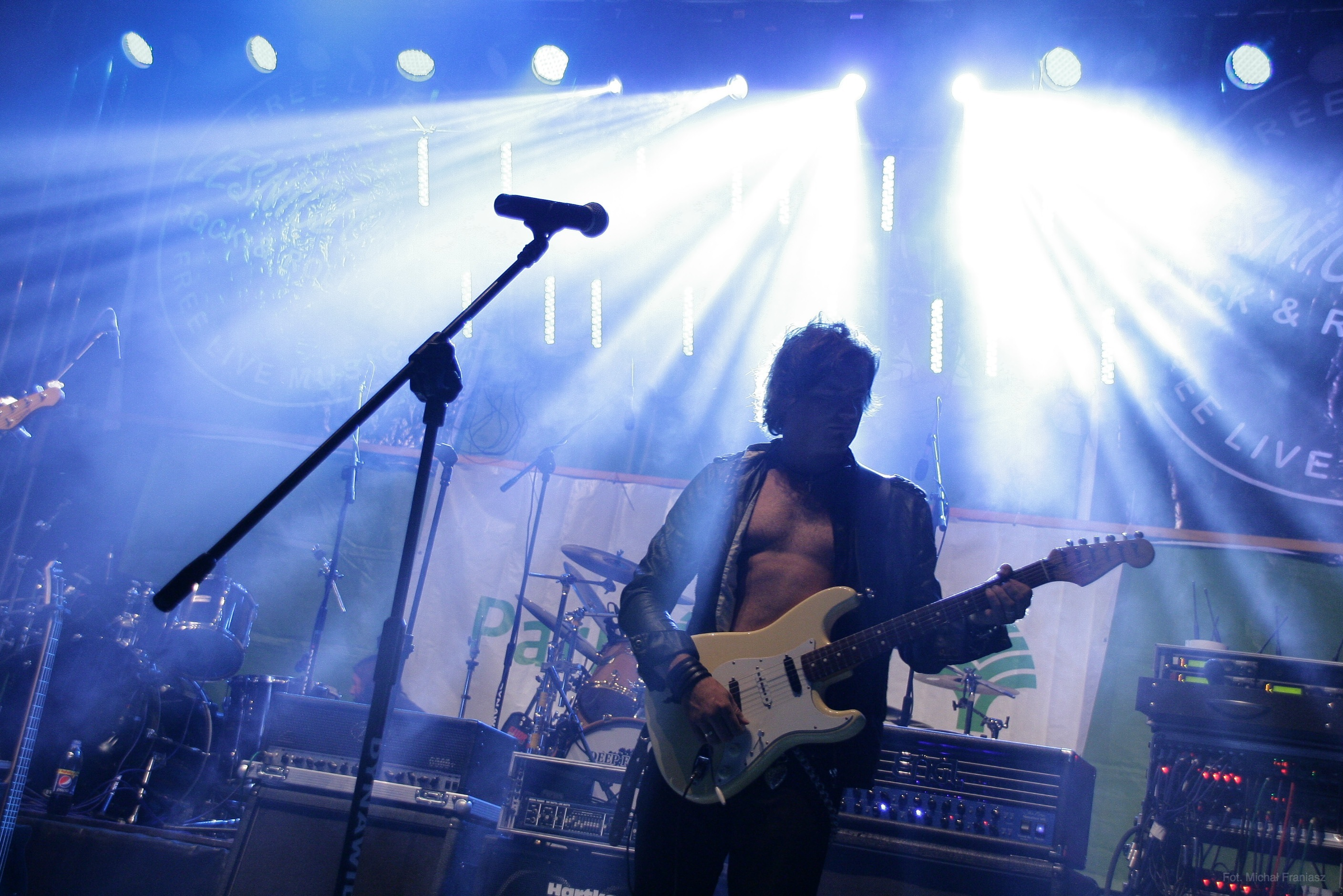 Piotr Brzychcy (electric guitar)